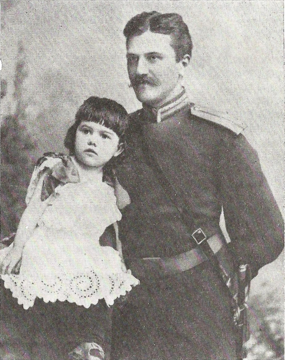 Nadezhda Udaltsova (1886—1961) with her father. 1889.